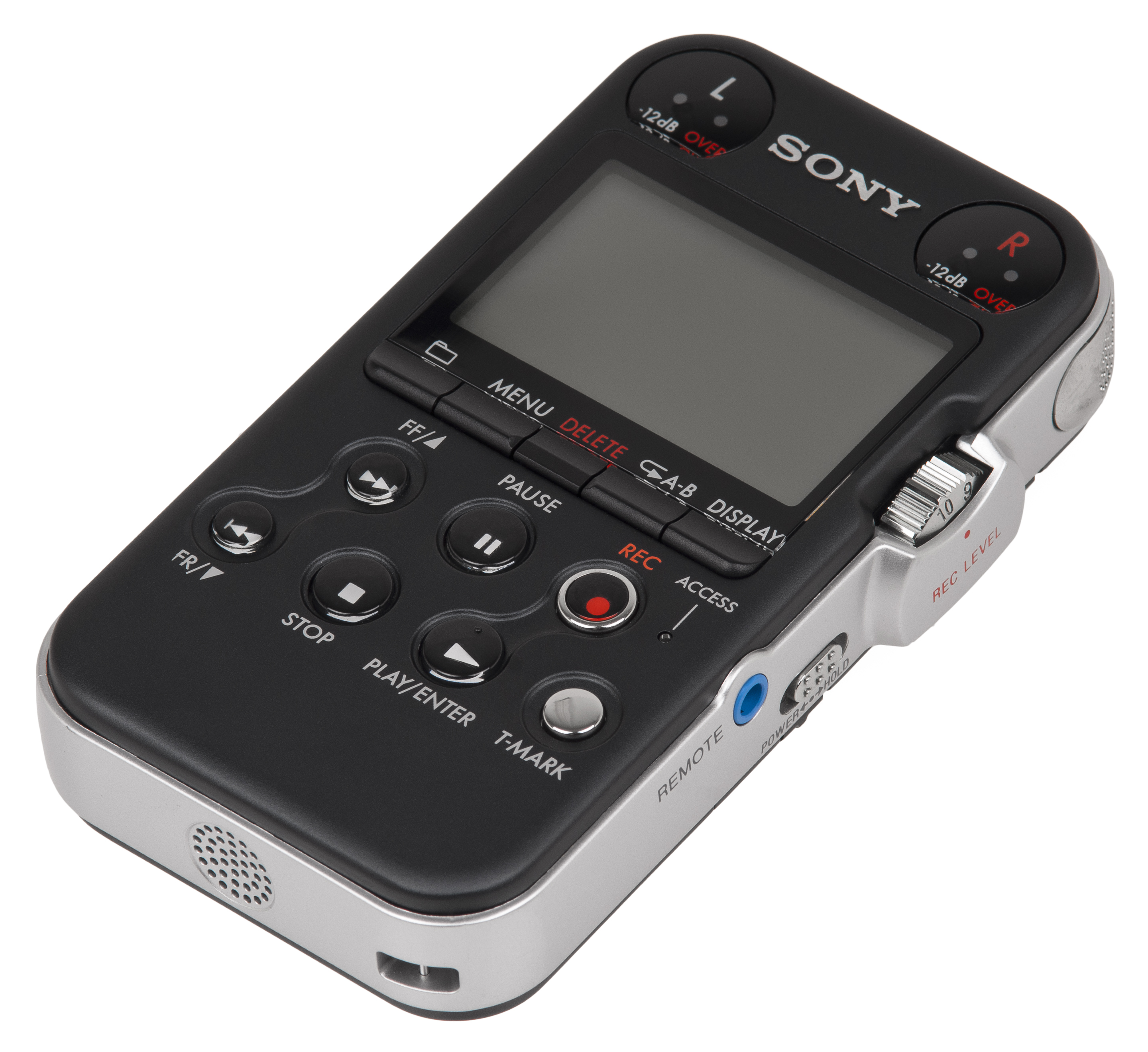 The Sony PCM-M10 sound recorder.